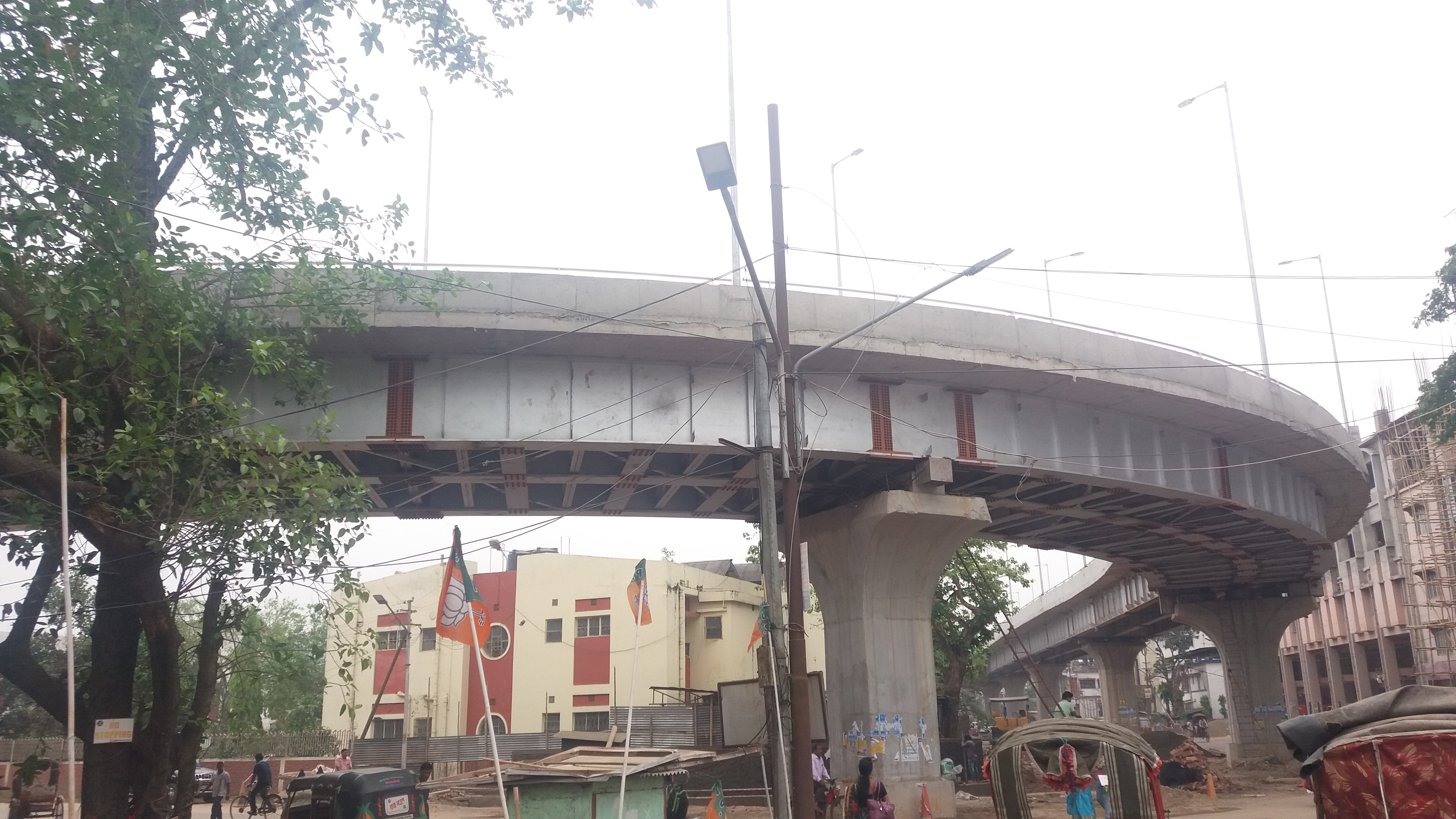 Side view of agartala flyover under construction.